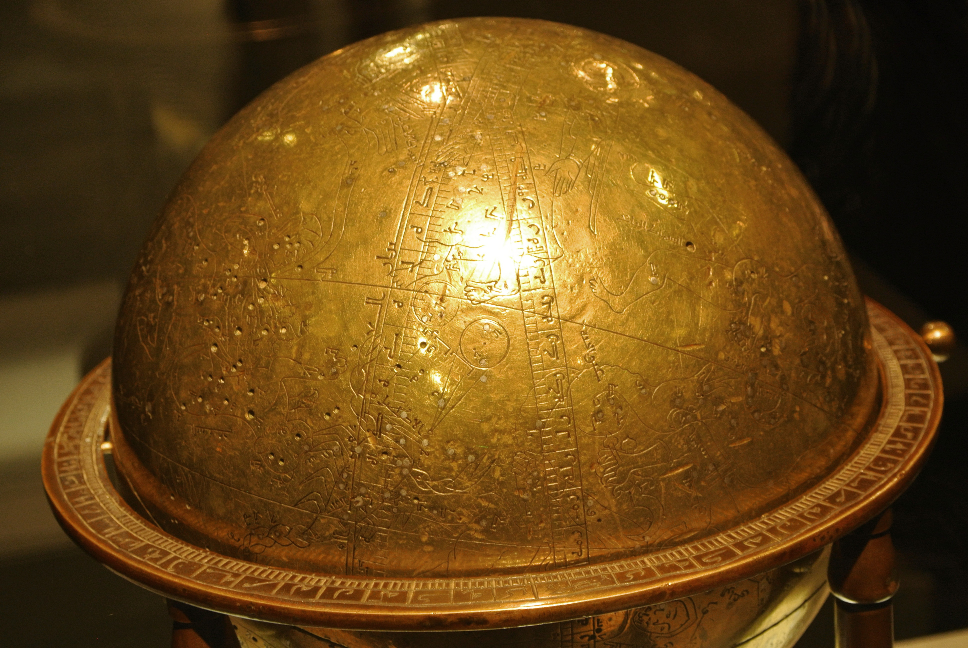 Celestial Globe, Isfahan (?), Iran, 1144. Signed Yunus b.al-Husayn al-Asturlabi. Shown at the Louvre Museum. Engraved bronze inlaid with silver. A spherical astrolabe is a three dimensional model of the universe for observation and measurement. This globe, the 3rd oldest surviving in the world, shows the 48 constellations identified by the Greec Ptolemy in Alexandria. The 1025 stars are represented by silver dots that vary in size according the the observed brightness of each one. The inscription states that Yunus recalculated the coordinates taking into account the lapse of time between Ptolemy's work and his own